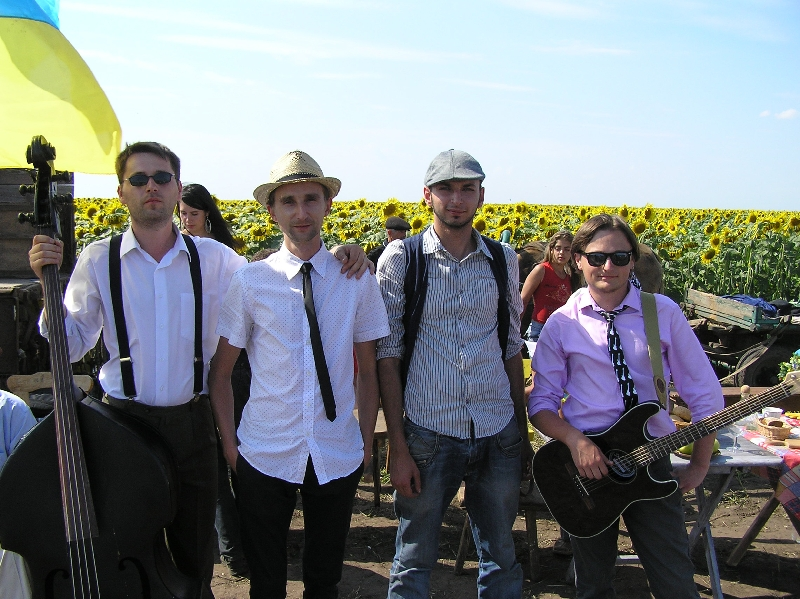 Los Colorados filming the official trailer for the German TV station ZDF and the UEFA European Football Championship 2012